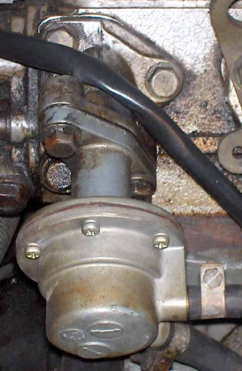 Fuelpump, fitted to cylinder head of a Saab H engine in a Saab 90. Poto, upload; MH 16:46, 19 March 2006 (UTC)